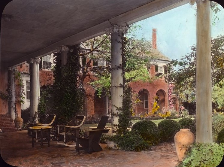 Title ["Wellington," Malcolm Matheson house, Fox Hunt Road, Alexandria, Virginia. Porch] Contributor Names Johnston, Frances Benjamin, 1864-1952, photographer Created / Published [1931] Subject Headings - Gardens--Virginia--Alexandria--1920-1930 - Porches--Virginia--Alexandria--1920-1930 - Outdoor furniture--Virginia--Alexandria--1920-1930 - Houses--Virginia--Alexandria--1920-1930 Format Headings Lantern slides--Hand-colored--1920-1930. Notes - Site History. Built in the 18th century for Colonel Tobias Lear; from his death in 1818, owned by descendents of George Washington. Today: Extant. - On slide (handwritten): "Wellington" and no. "157." Also, typed name "Alexandria Garden Club." - Title and date from Johnston's Carnegie Survey of the Architecture of the South, LC-J7-VA- 1699, with additional information provided by Sam Watters, 2011. - Forms part of: Garden and historic house lecture series in the Frances Benjamin Johnston Collection (Library of Congress). Medium 1 photograph : glass lantern slide, hand-colored ; 3.25 x 4 in. Call Number/Physical Location LC-J717-X101- 40 [P&P] Repository Library of Congress Prints and Photographs Division Washington, D.C. 20540 USA Digital Id ppmsca 16340 //hdl.loc.gov/loc.pnp/ppmsca.16340 Library of Congress Control Number 2007686340 Reproduction Number LC-DIG-ppmsca-16340 (digital file from original item) Rights Advisory No known restrictions on publication. Online Format image Description 1 photograph : glass lantern slide, hand-colored ; 3.25 x 4 in. LCCN Permalink